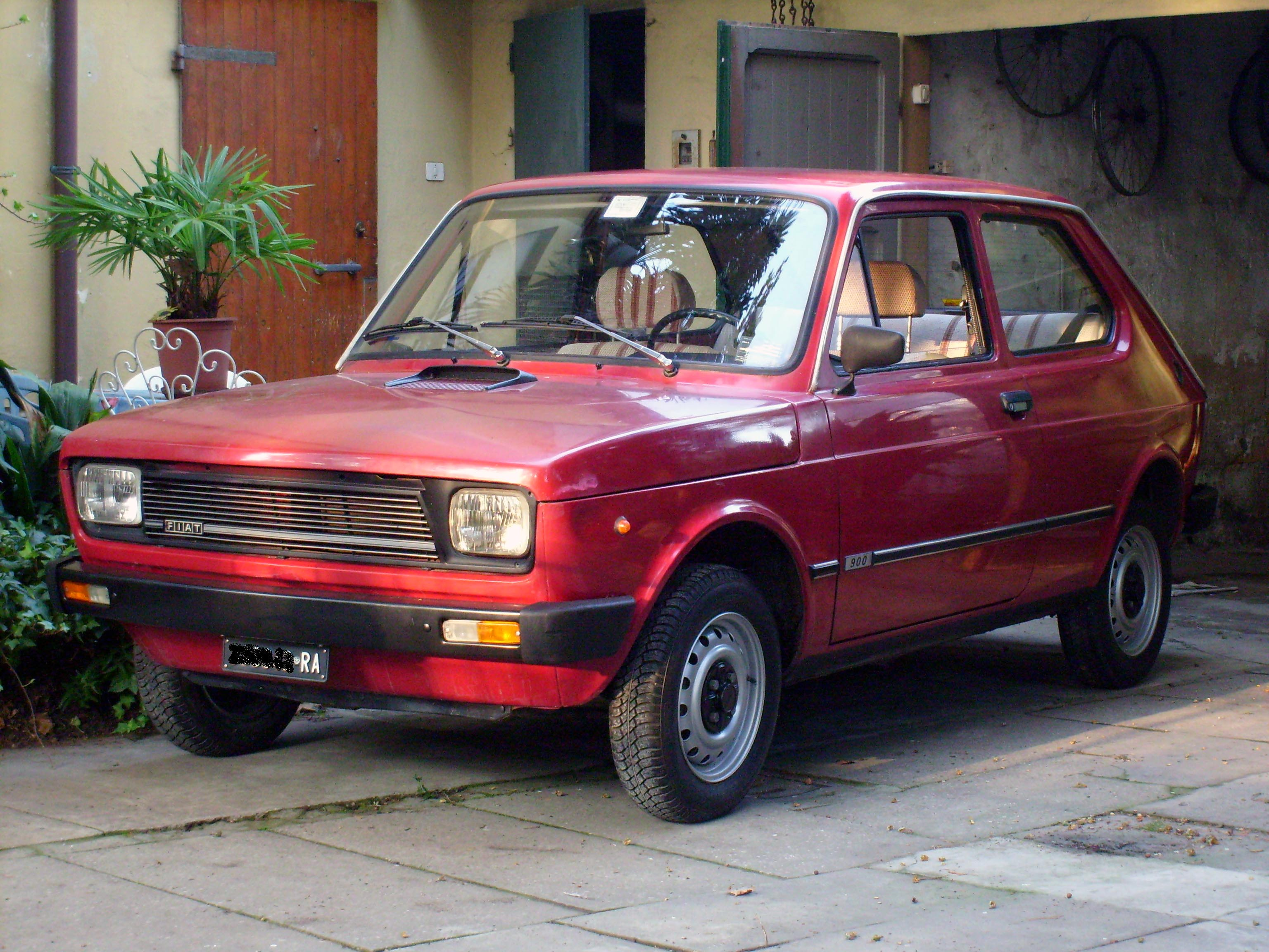 Fiat 127. Special. 1981